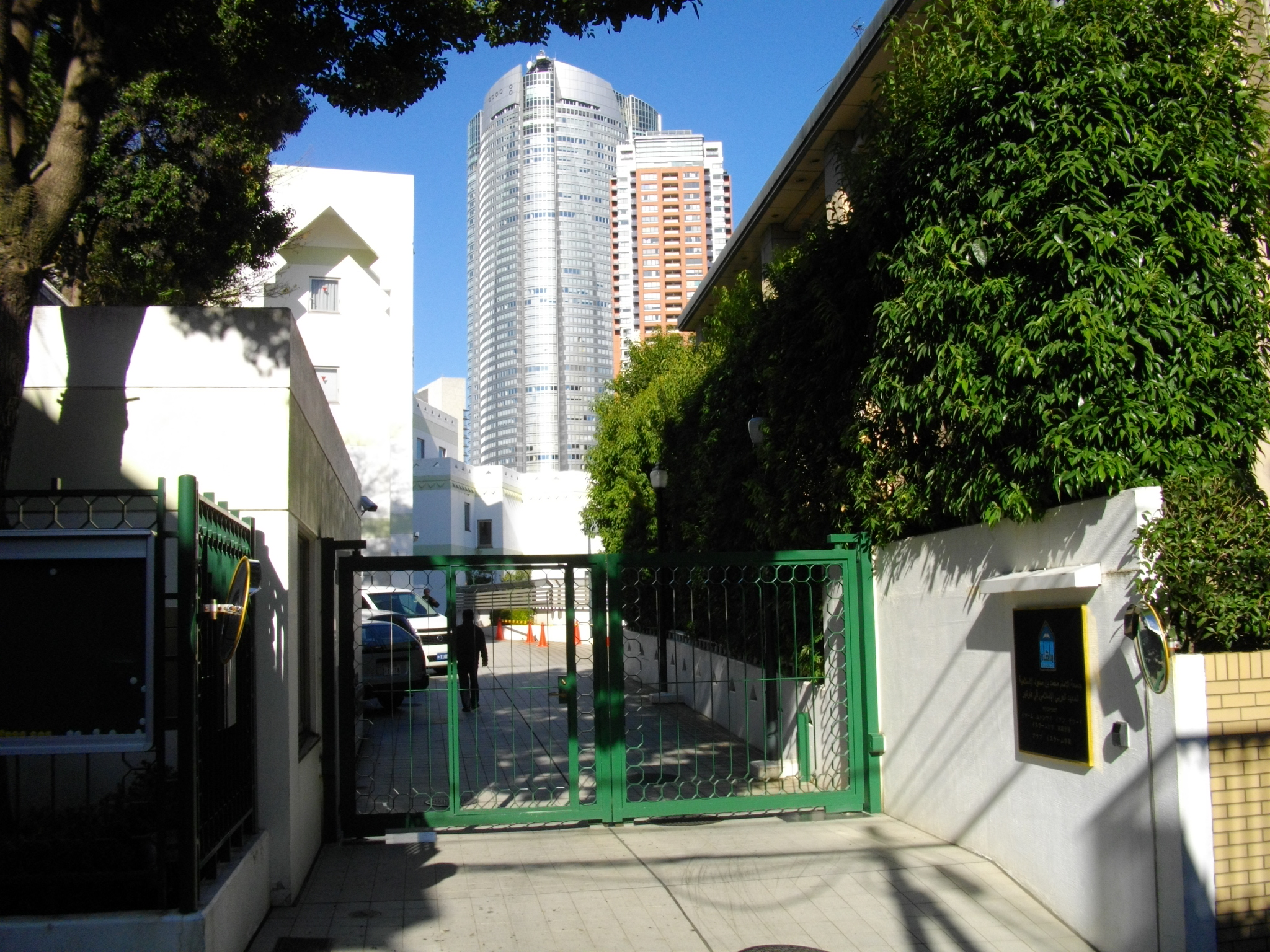 Arabic Islamic Institute in Tokyo. Motoazabu, 3 Chome−4−18